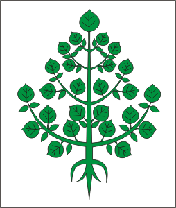 l'alsina del Baix Camp This image was moved to Commons by User:Iradigalesc (here: Iradigalesc) with the tool CommonismNow.